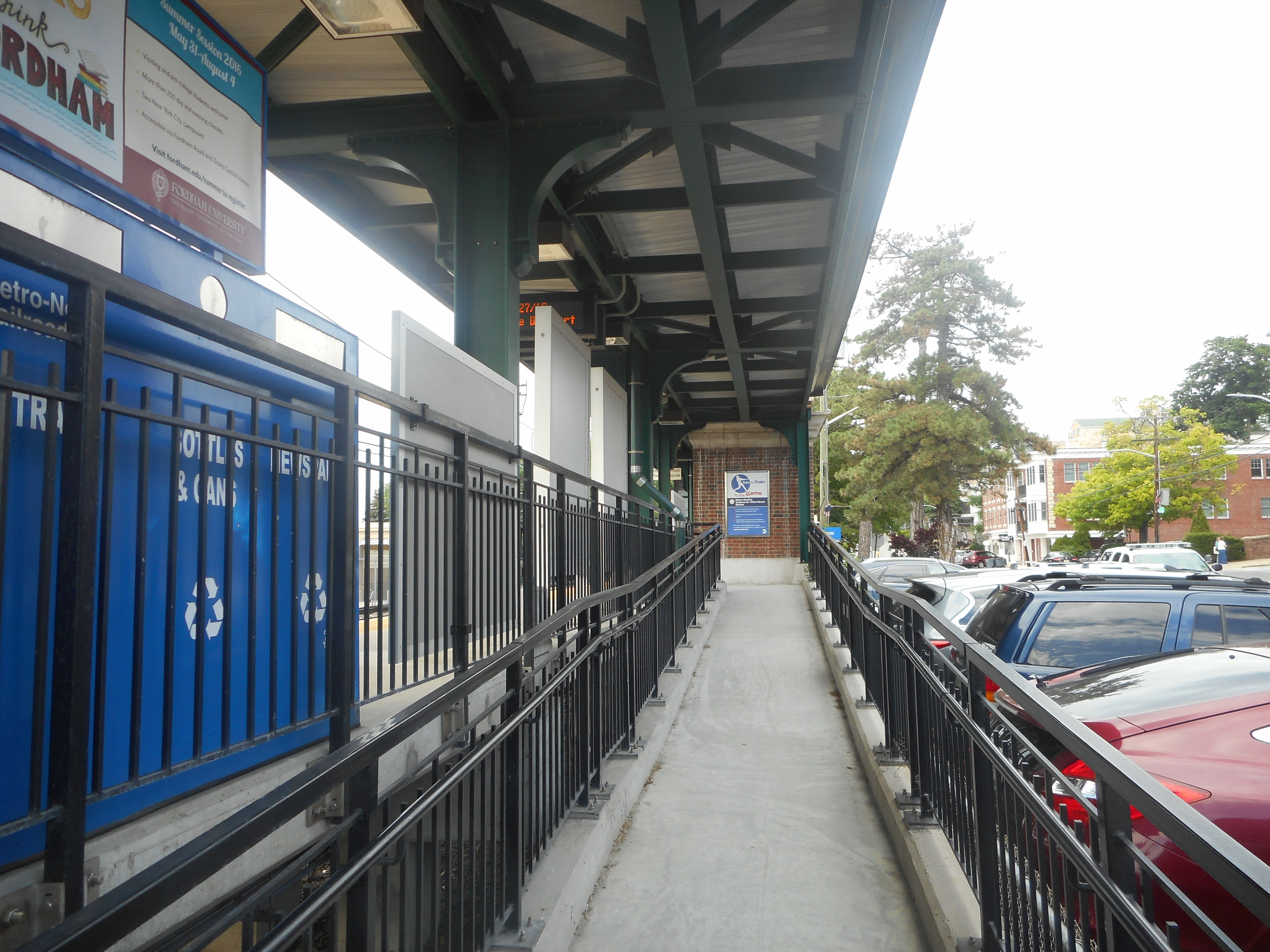 Ramp from the handicapped parking spaces on South Astor Street along the Poughkeepsie-bound platform of Irvington Metro-North station on the Metro-North Hudson Line in Irvington, New York. The ramp reaches the platform behind a salt storage shed. North Astor Street (north of East Main Street) can be seen in the background off to the right.